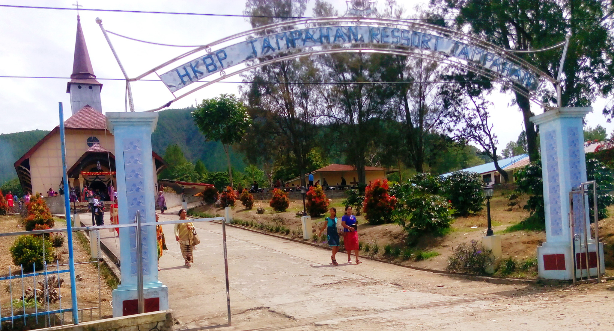 HKBP Tampahan, Church in Tampahan, Tampahan, Toba Samosir